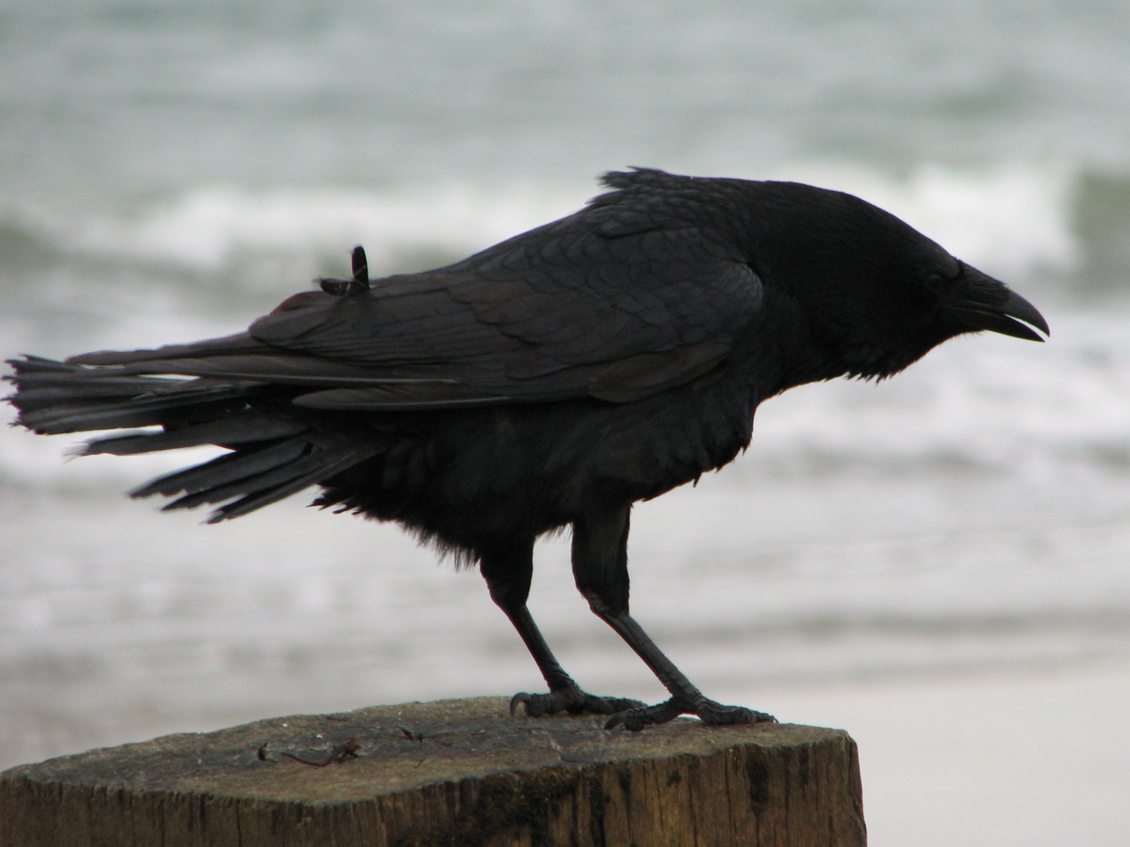 Carrion Crow Corvus corone displaying on a beach on the Isle of Wight, England